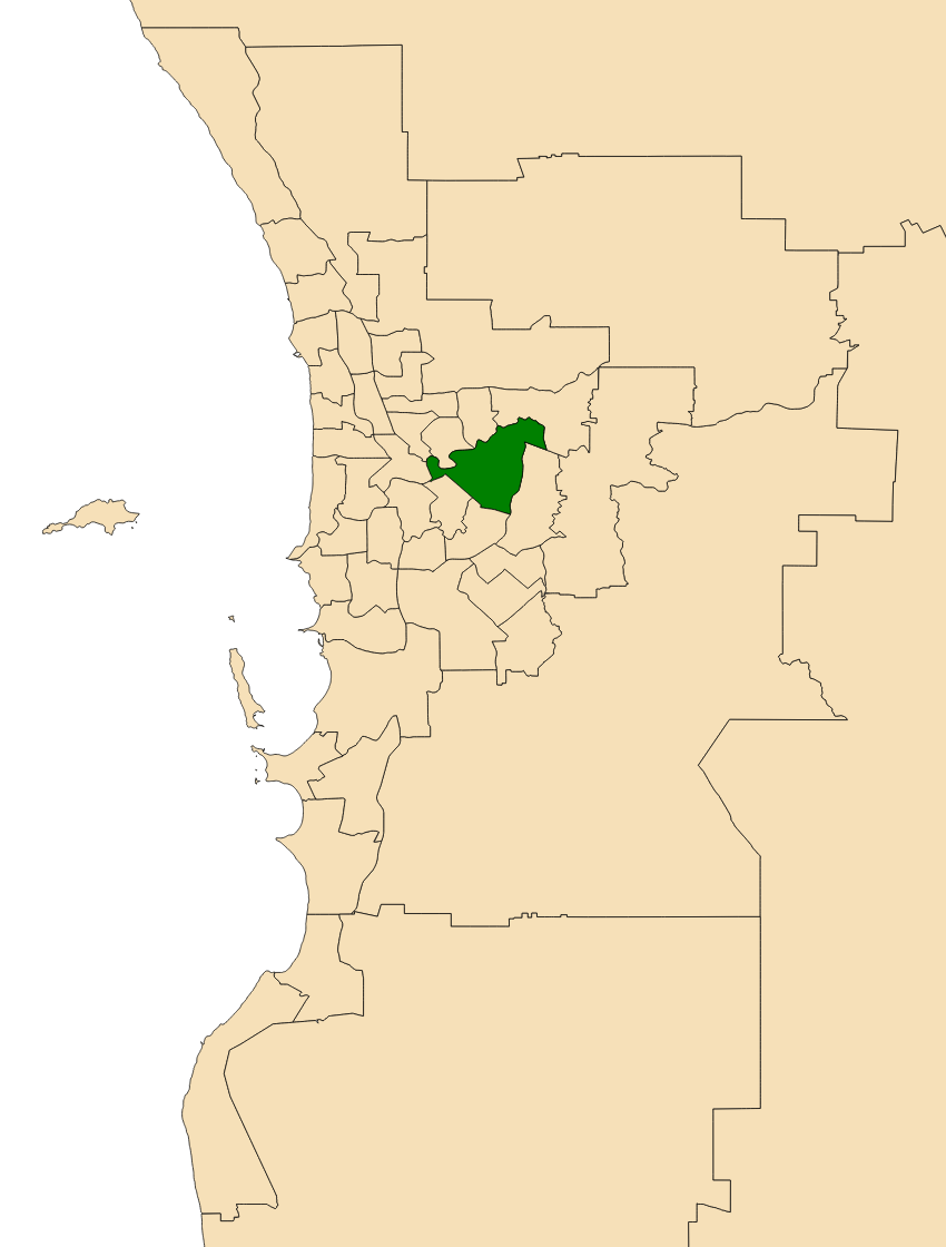 Location of the electoral district of Belmont in the Perth metropolitan area, Western Australia as of the 2017 WA state election.